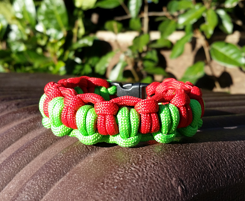 Survival bracelet with tying "Half-Hitch"